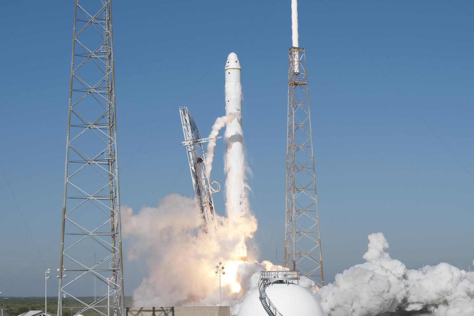 SpaceX’s Falcon 9 rocket and Dragon spacecraft lift off from Launch Complex-40 at Cape Canaveral Air Force Station, Fla., at 10:43 a.m. EST, Wednesday, Dec. 8, 2010.